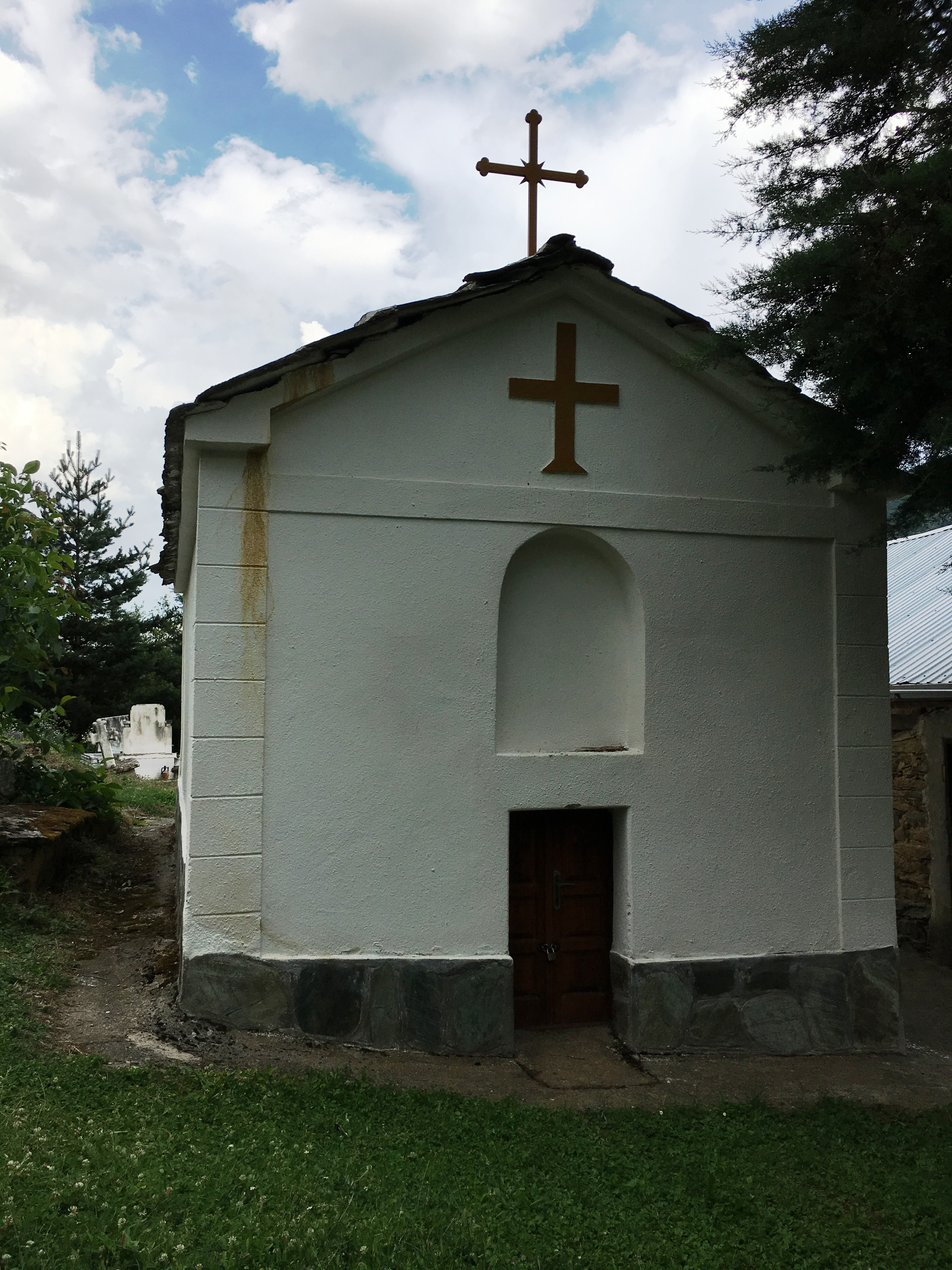 The front view of the Gabriel the Archangel Church in the village of Oreovec